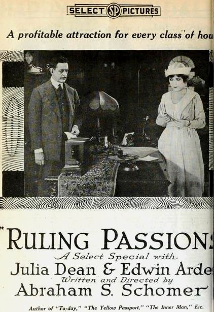 Ad for the American film Ruling Passions (1918) with Edwin Arden and Julia Dean, on page 22 of the April 27, 1919 Film Daily.